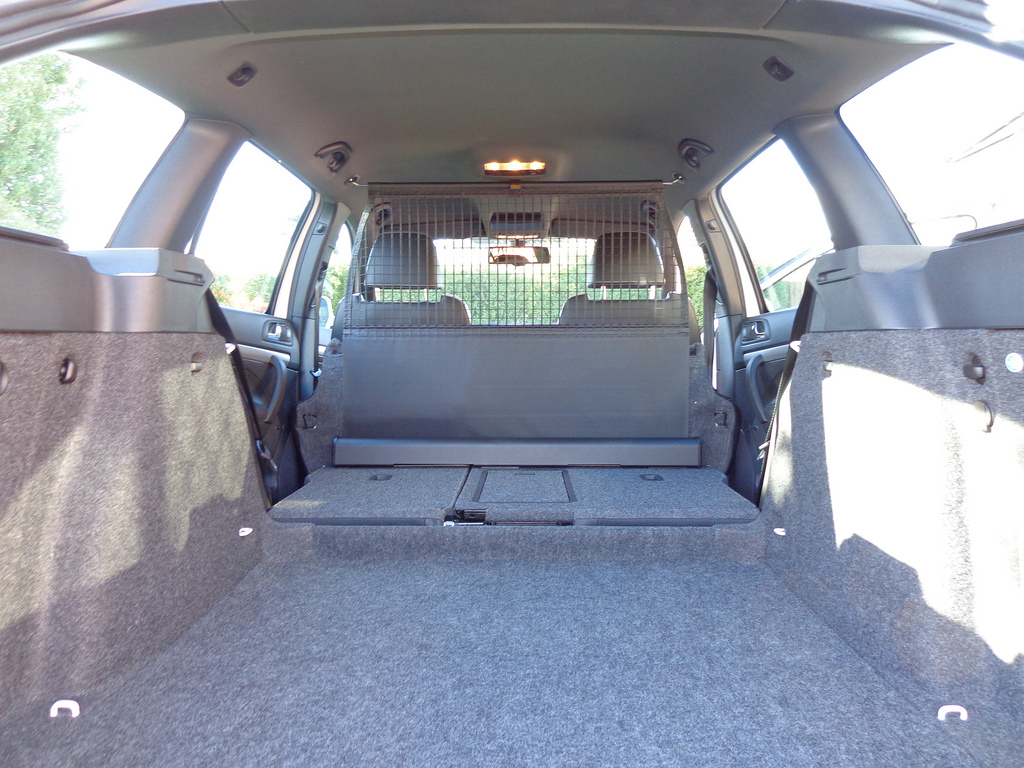 The Octavia vRS is for those that desire a sporty, yet very practical, vehicle. This particular vehicle is available from us here at Miles Continental in Christchurch. Visit our website: Join us on Facebook: Photos by Mark Lincoln.